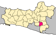 Locator map for the Kabupaten (Regency) of Sukoharjo, provinsi Jawa Tengah (Central Java Province), Indonesia